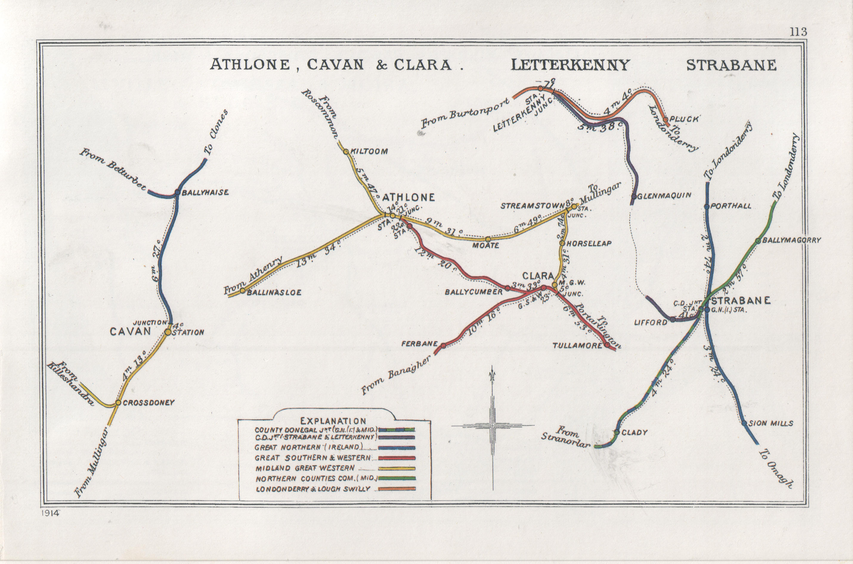 Pre Grouping railway junction around Athlone, Cavan & Clara; Letterkenny; Strabane